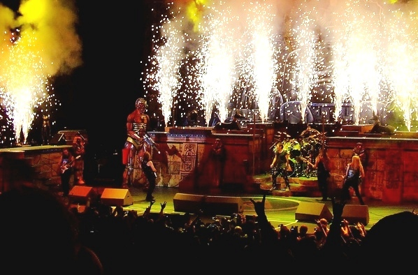 This is a retouched picture, which means that it has been digitally altered from its original version. Modifications